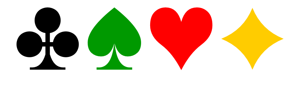 Skat - tournament deck suits